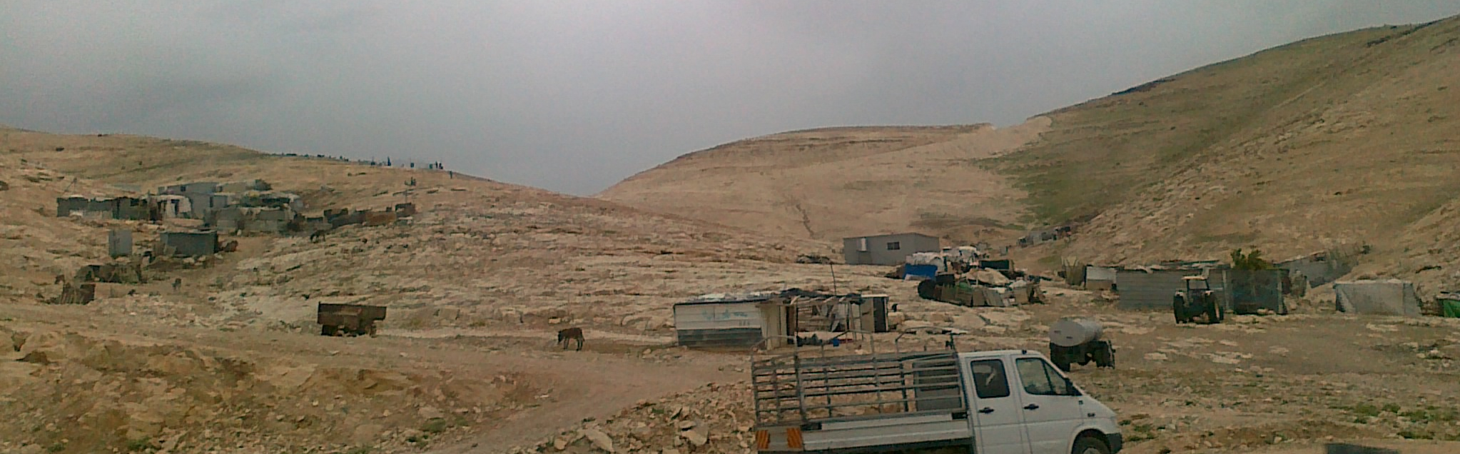 A Bedouin squatter compound in the Naqeb Desert